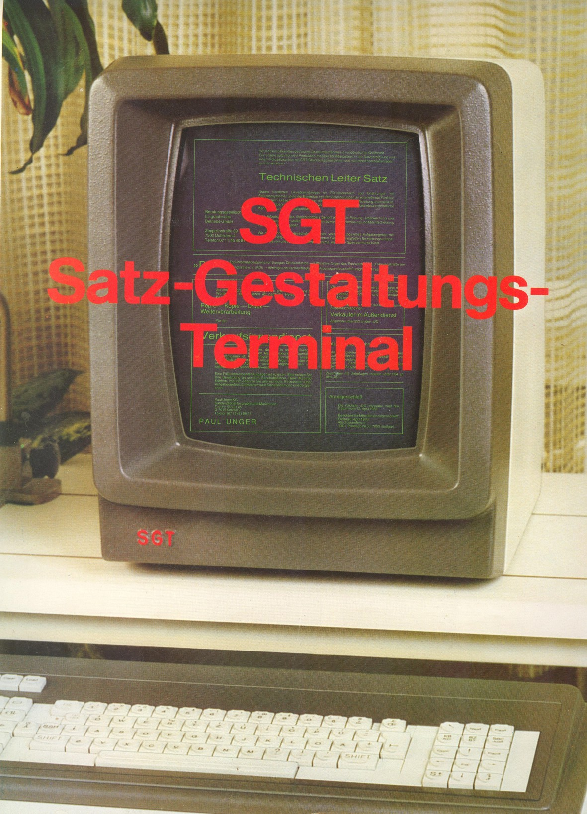 The picture shows the first "SGT" - it was the first WYSIWYG phototypesetting machine for Linotype phototypesetters